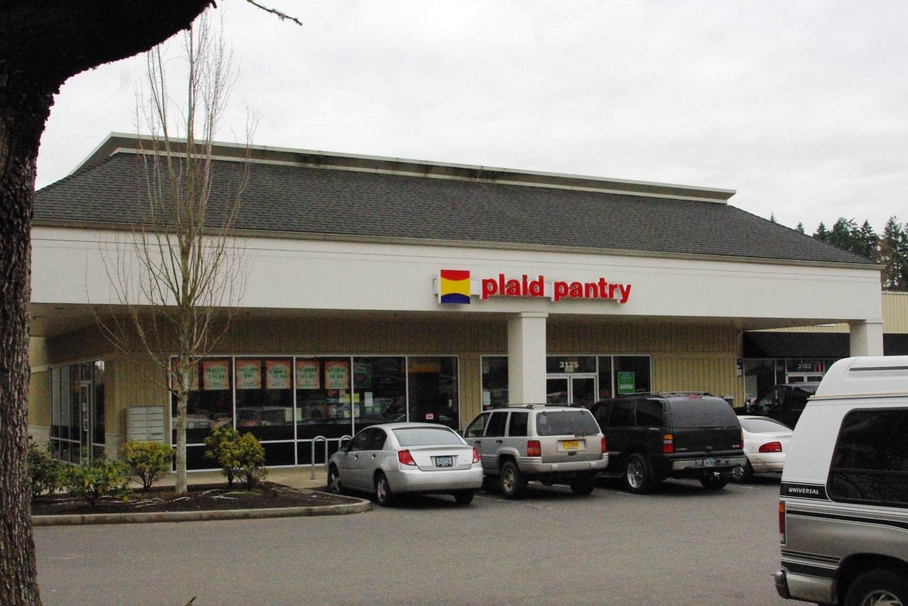 Glencoe Road in the Glencoe neighborhood of Hillsboro, Oregon, USA